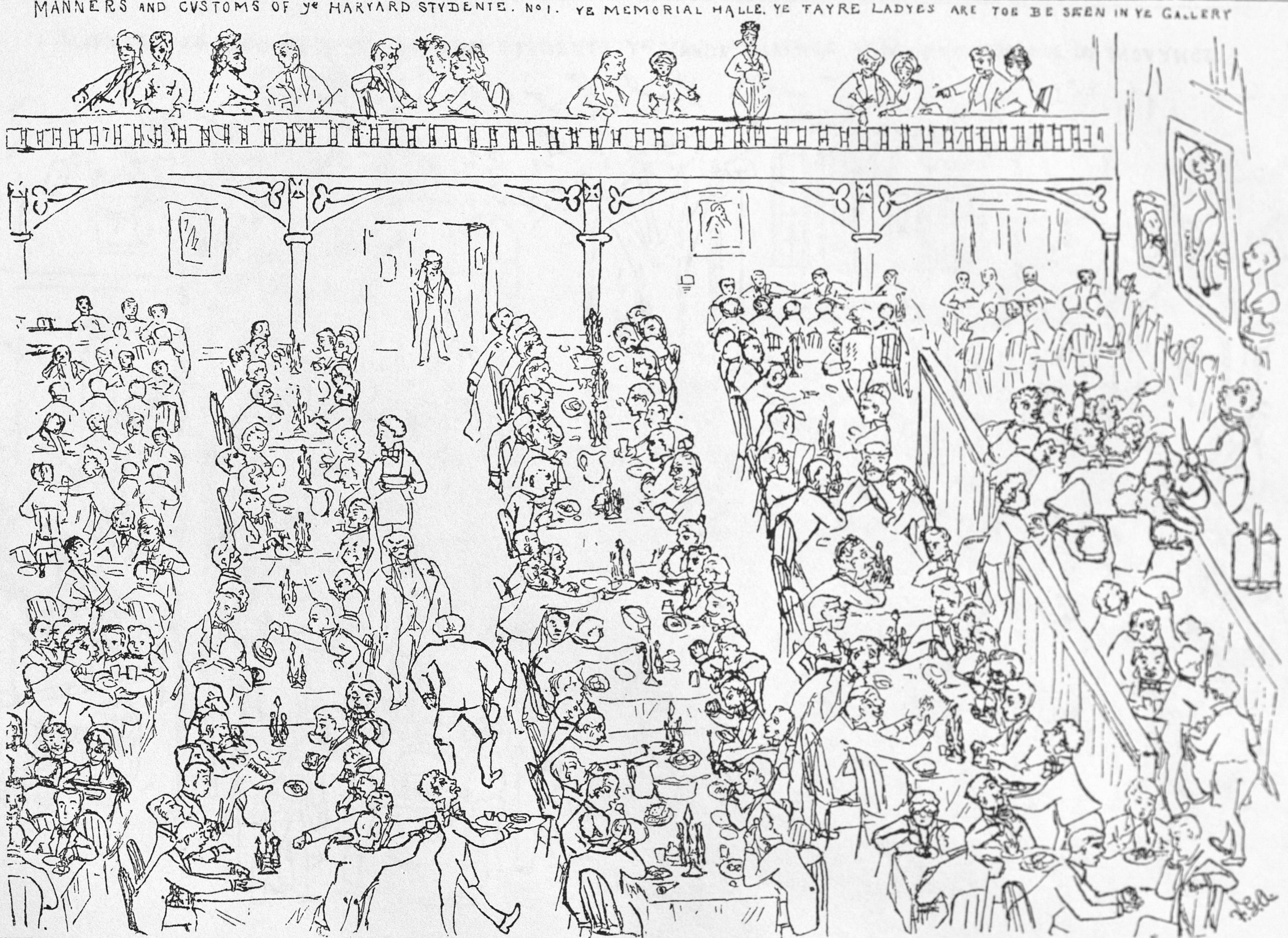 Humorous drawing of Harvard College students dining in Memorial Hall (Harvard University)